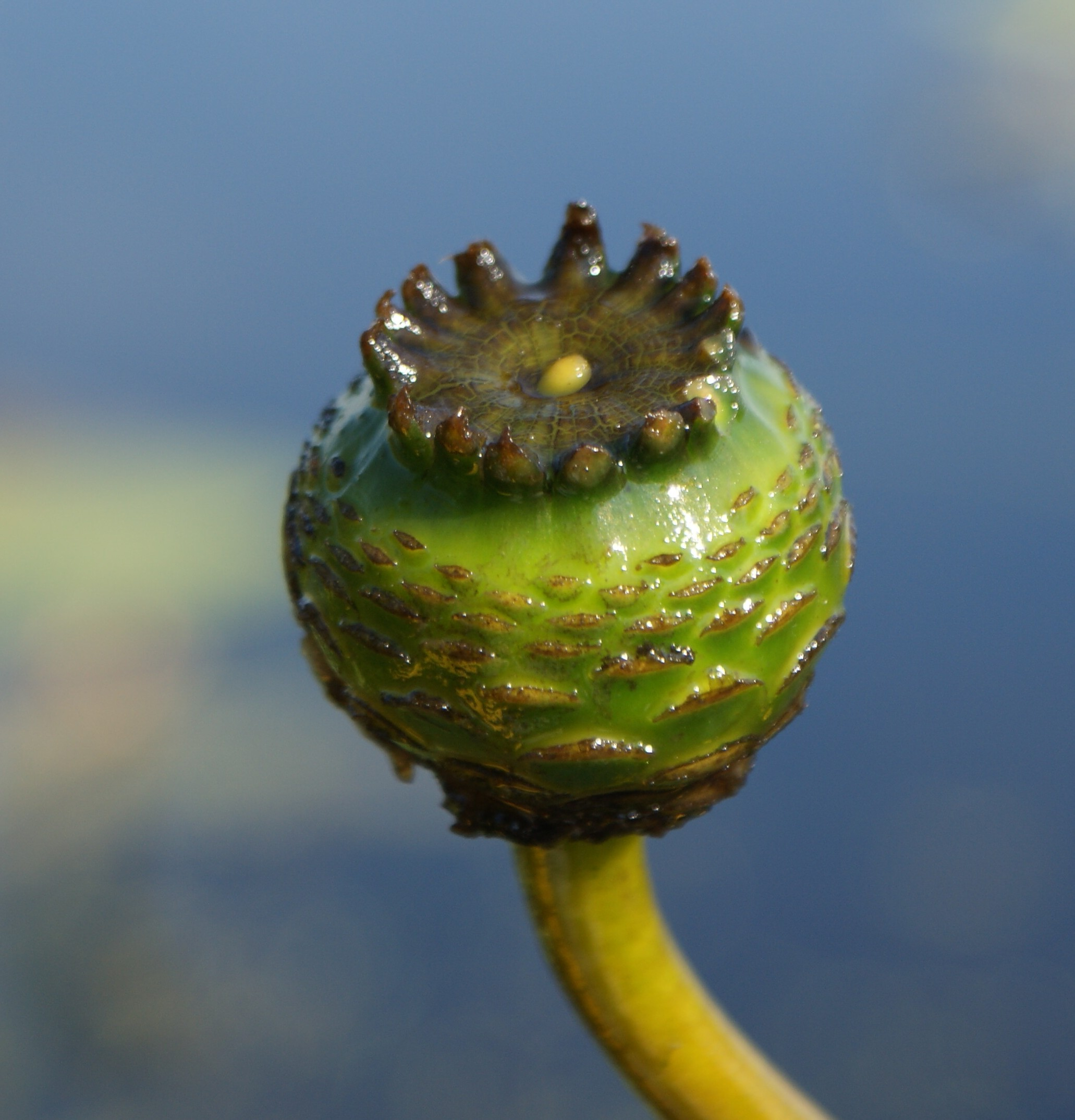 Nymphaea alba, fruit (Dąbskie Lake in Szczecin, NW Poland)